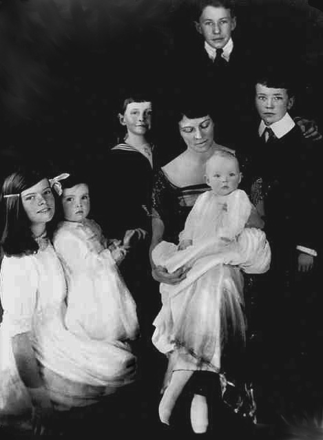 Family portrait of Katharine M. Houghton Hepburn and her six children, early 1921. L to R: daughter Katharine, Marion, Robert, Thomas, and Richard. Hepburn is seated at center with daughter Margaret.